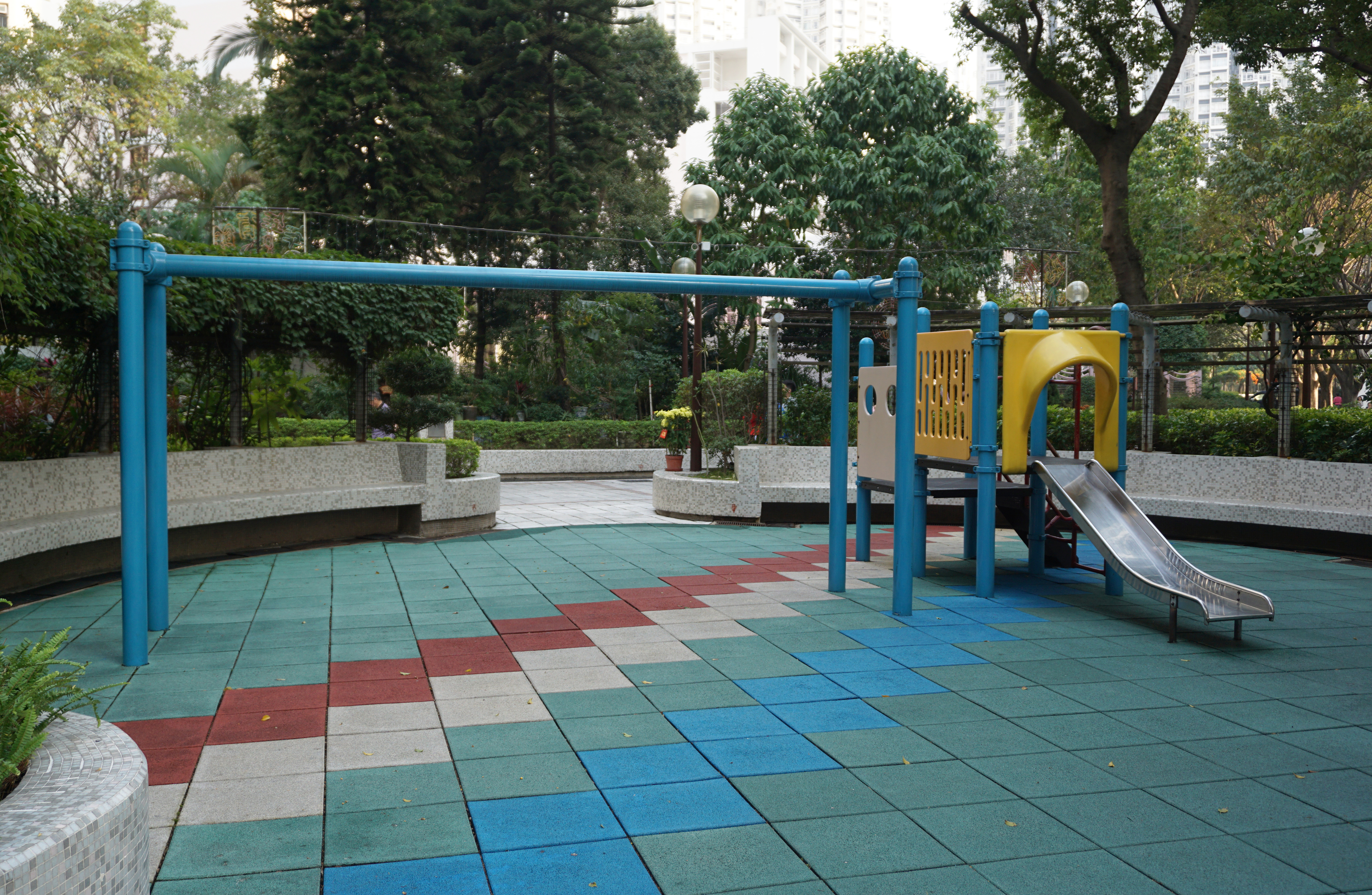 Tin Oin Court in Tin Shui Wai, Hong Kong.